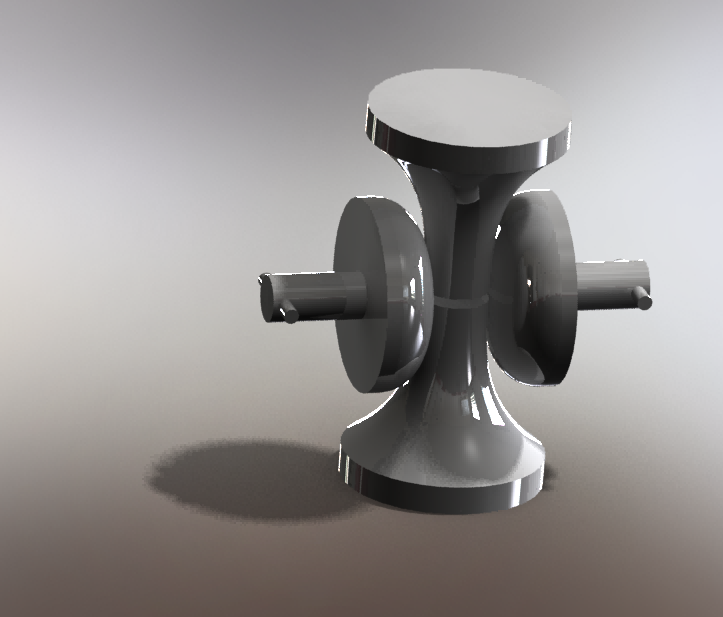 A toroidal continuously variable transmission, made in SolidWorks 2009 Premium, rendered with SolidWorks' internal photorealistic renderer, PhotoWorks.